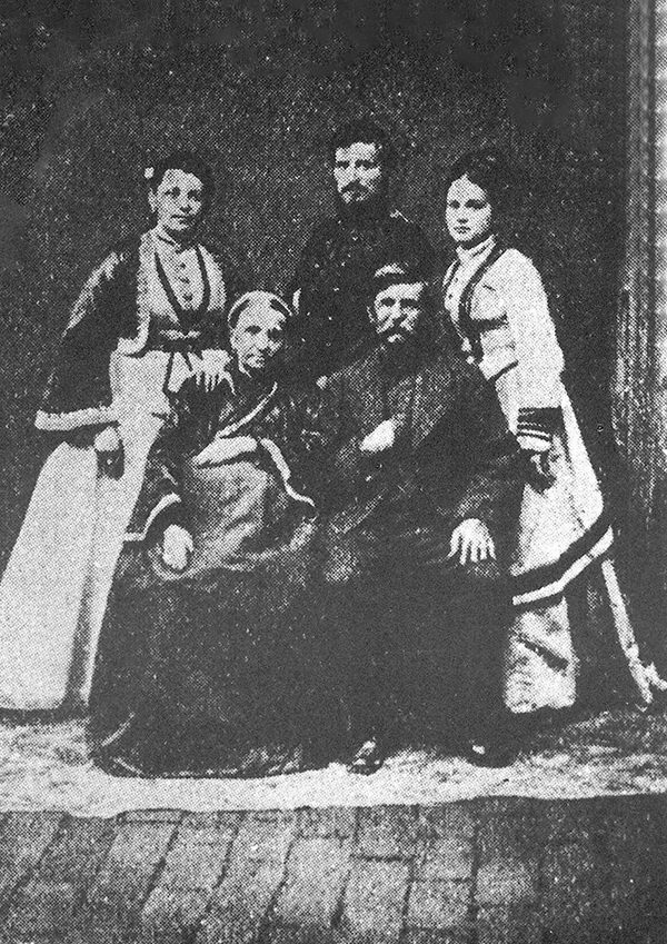 Radomir Putnik with his family Српски (ћирилица): Радомир Путник са породицом